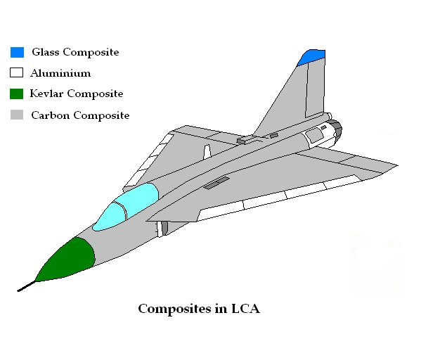 The use of various composites on the LCA Tejas.